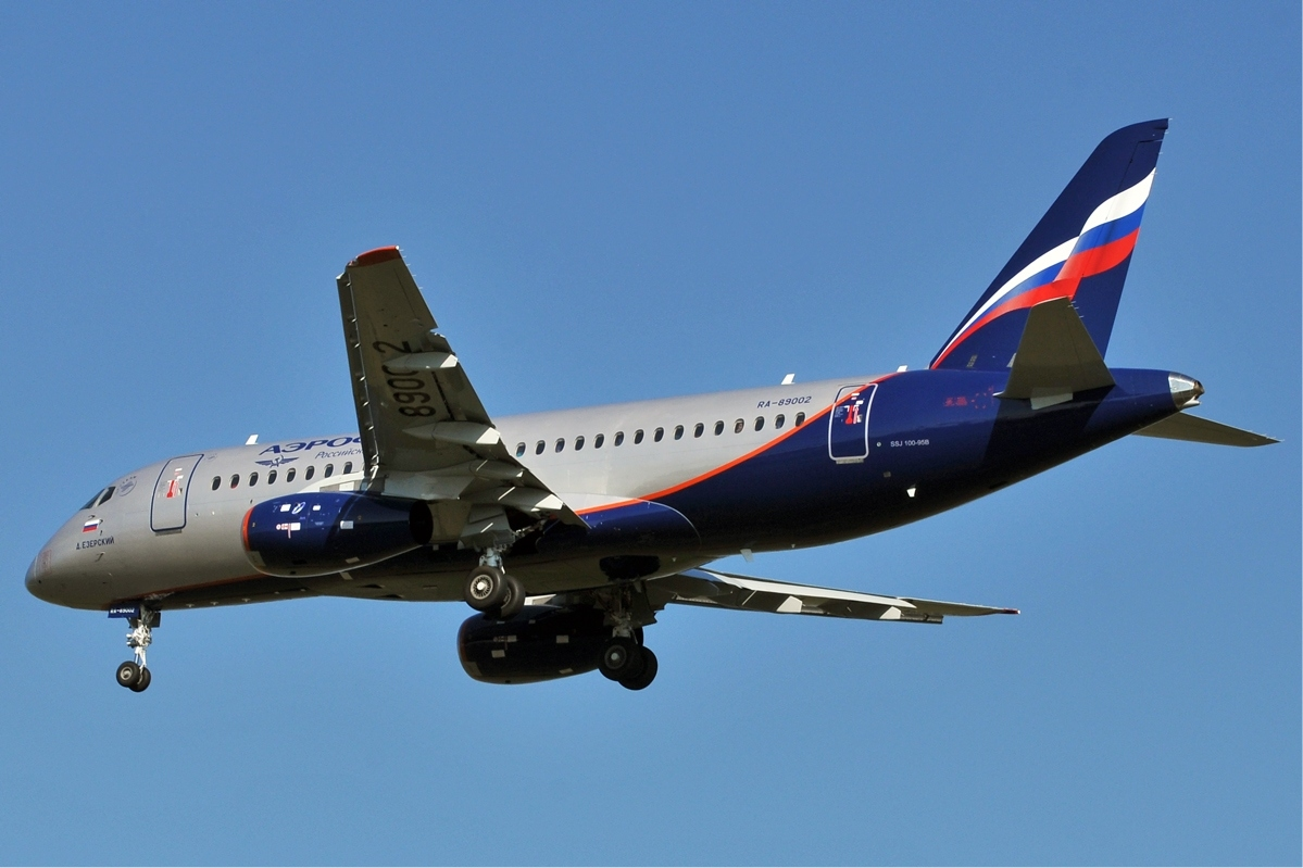 Aeroflot Sukhoi SuperJet - the second to join its fleet